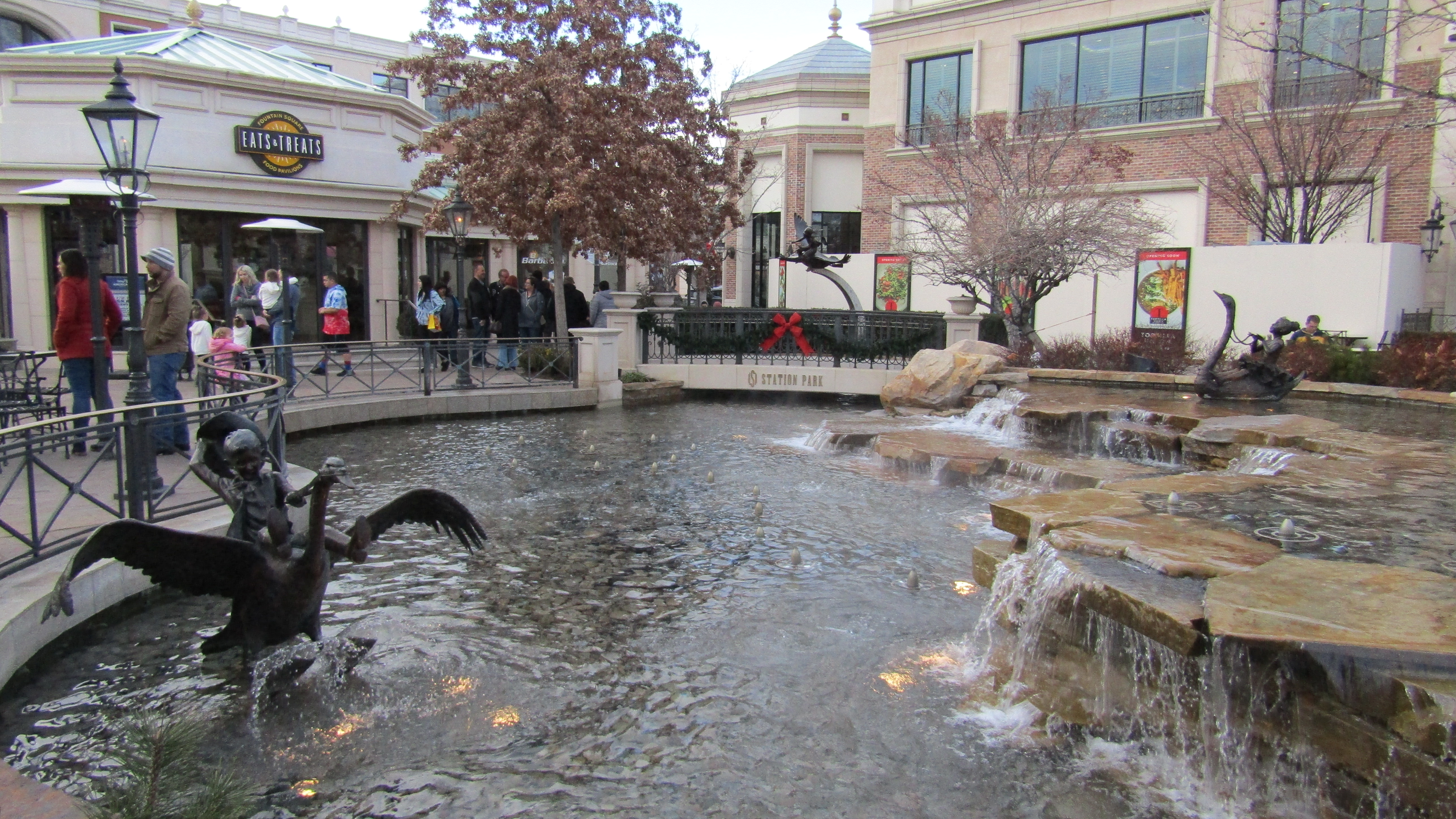 Water fountain at Station Park in Farmington, Utah.